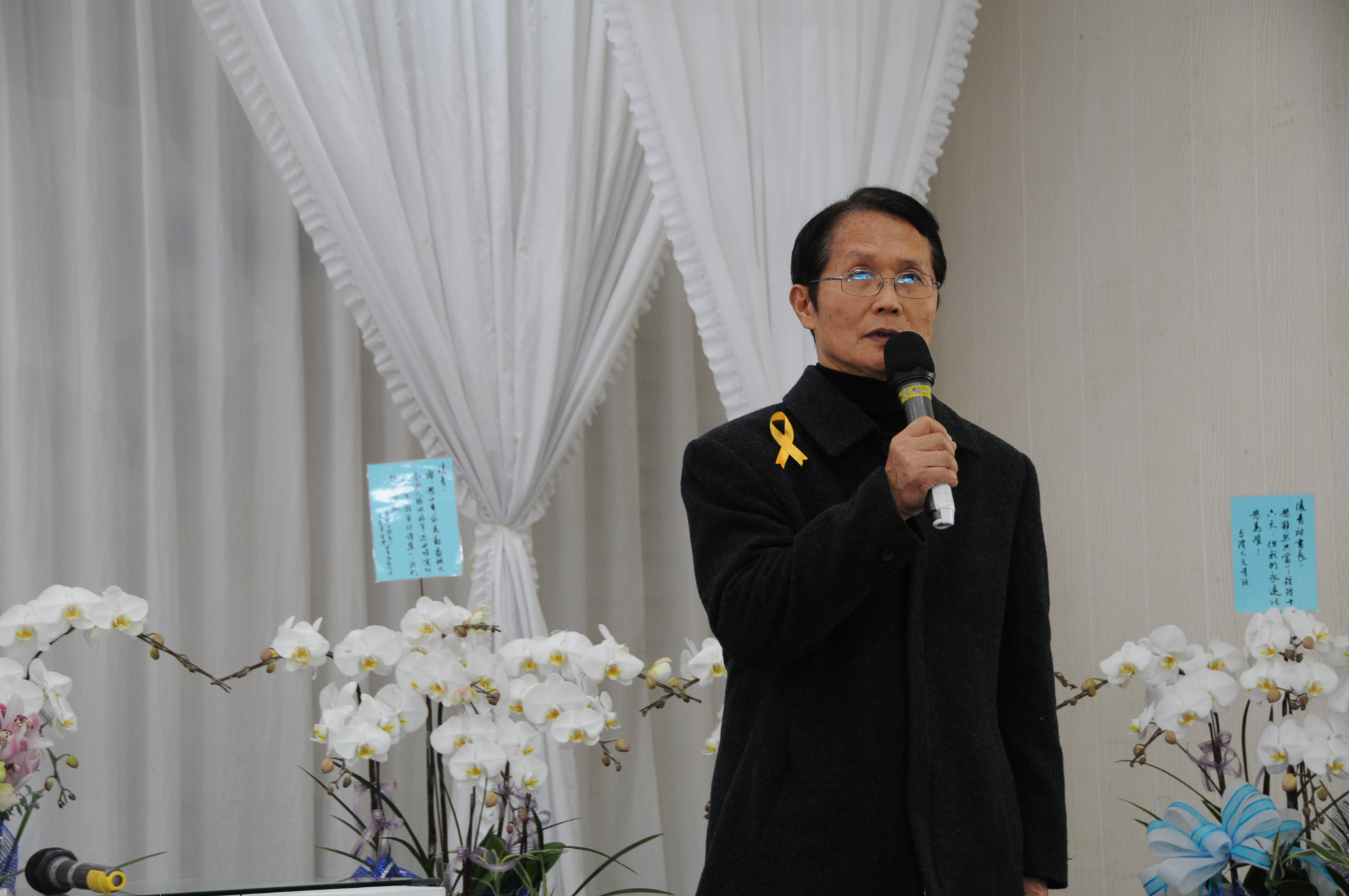 江凌青父親江和言於追思會會場